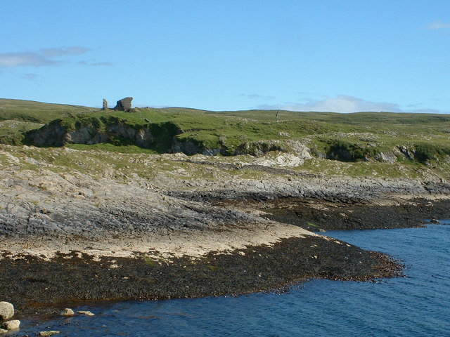 Achadun Castle. Achadun castle on Lismore as seen from Bernera Bay